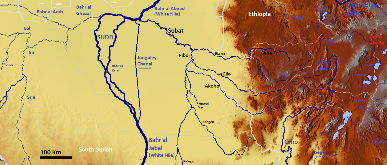 The Sobat, Sudd, Bahr al Gazal OSM